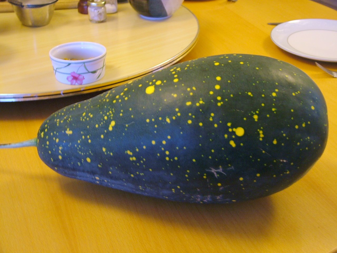 'Moon and stars' watermelon. Cultivated in Canberra, Australia.